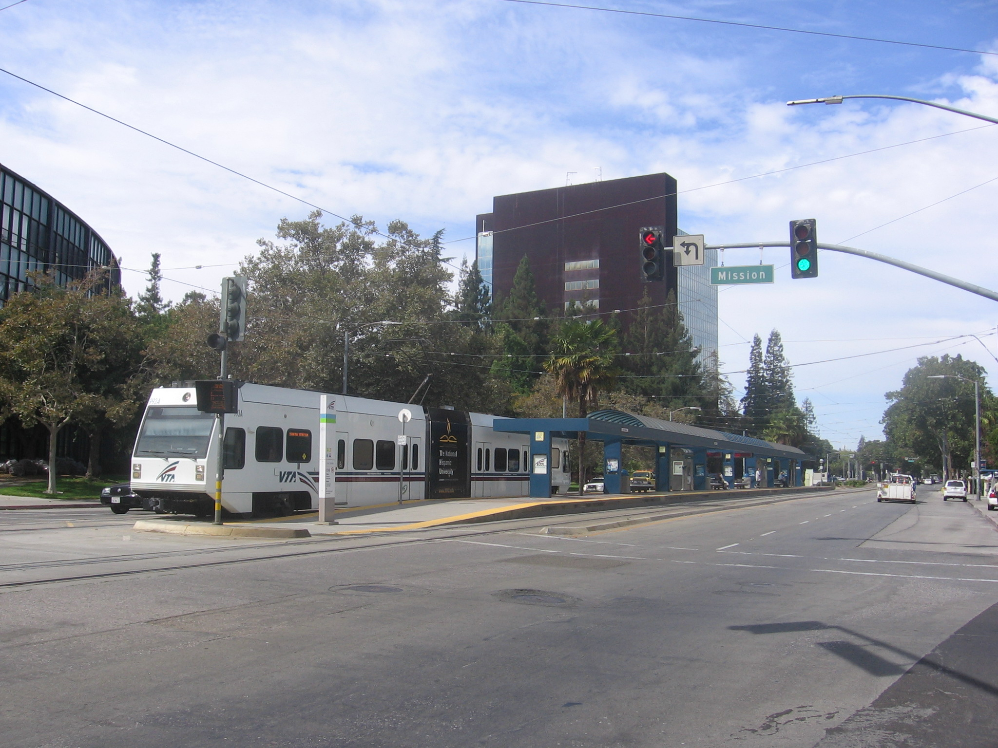 The Civic Center (VTA) light rail station in San José, California, USA.